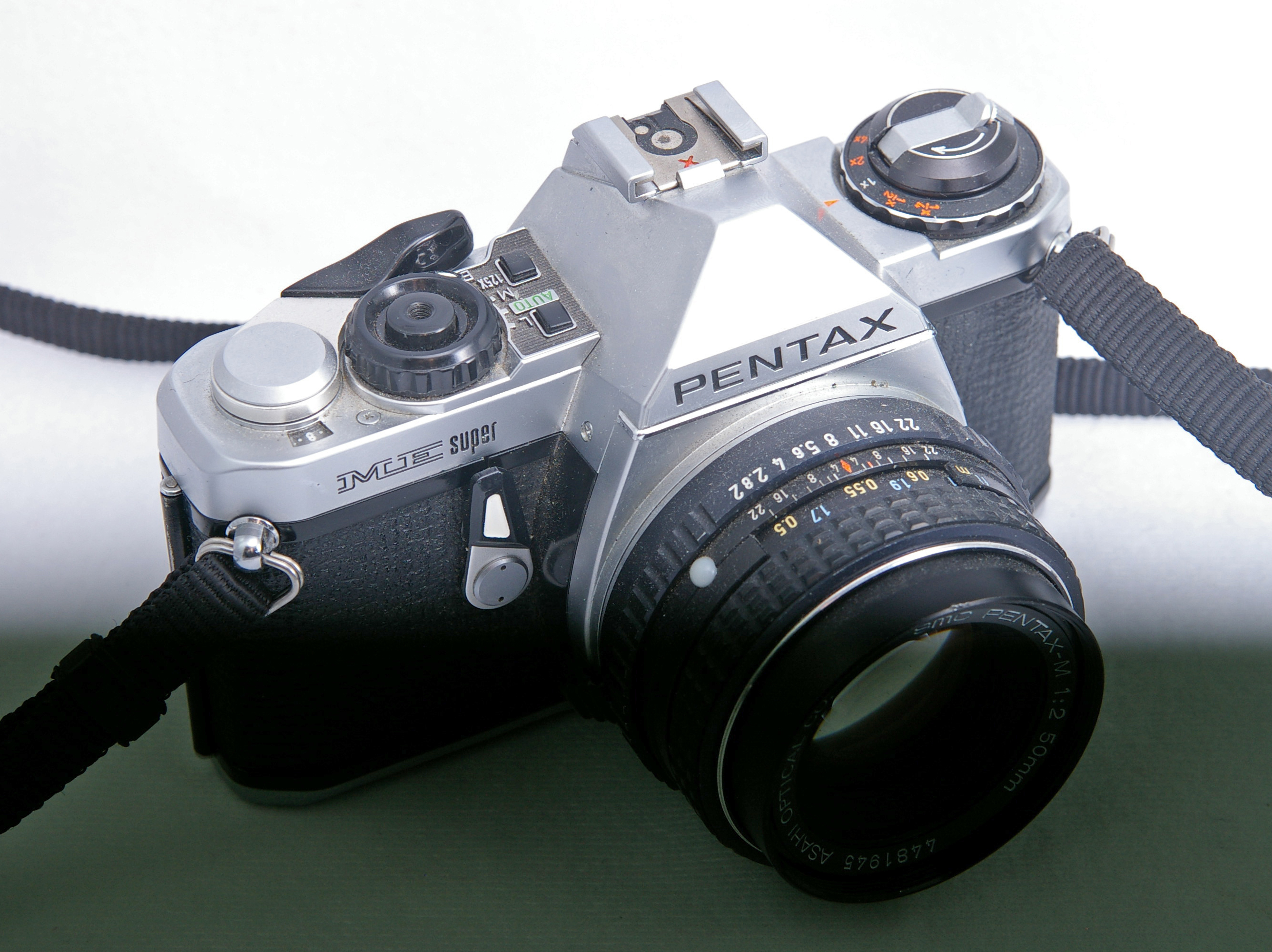 This is a flash sync failure, where the flash fired too late to illuminate the whole sensor. This is the same effect as using too high of a shutter speed. The flash used was a Vivitar 285HV, delayed a bit.